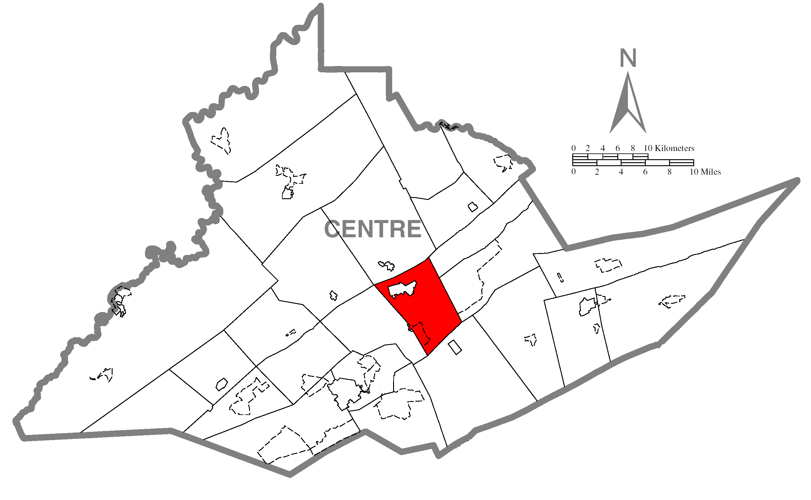 A map of Centre County showing Spring Township, Pennsylvania (alternate) highlighted on the map.